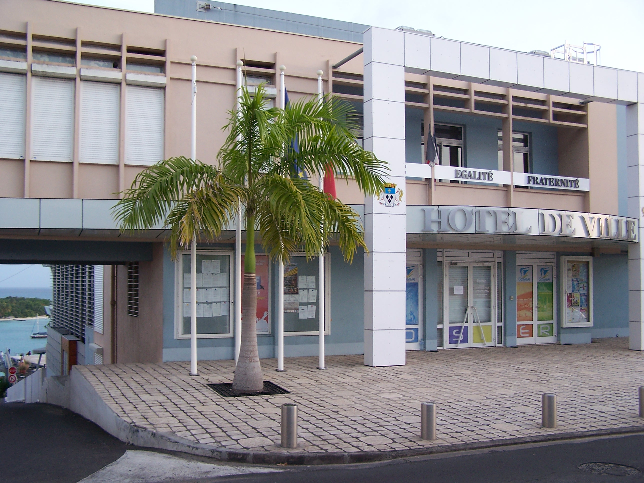 La mairie du Gosier, Guadeloupe et la pointe de l'îlet du Gosier qui est aperçu sous l'arcade.